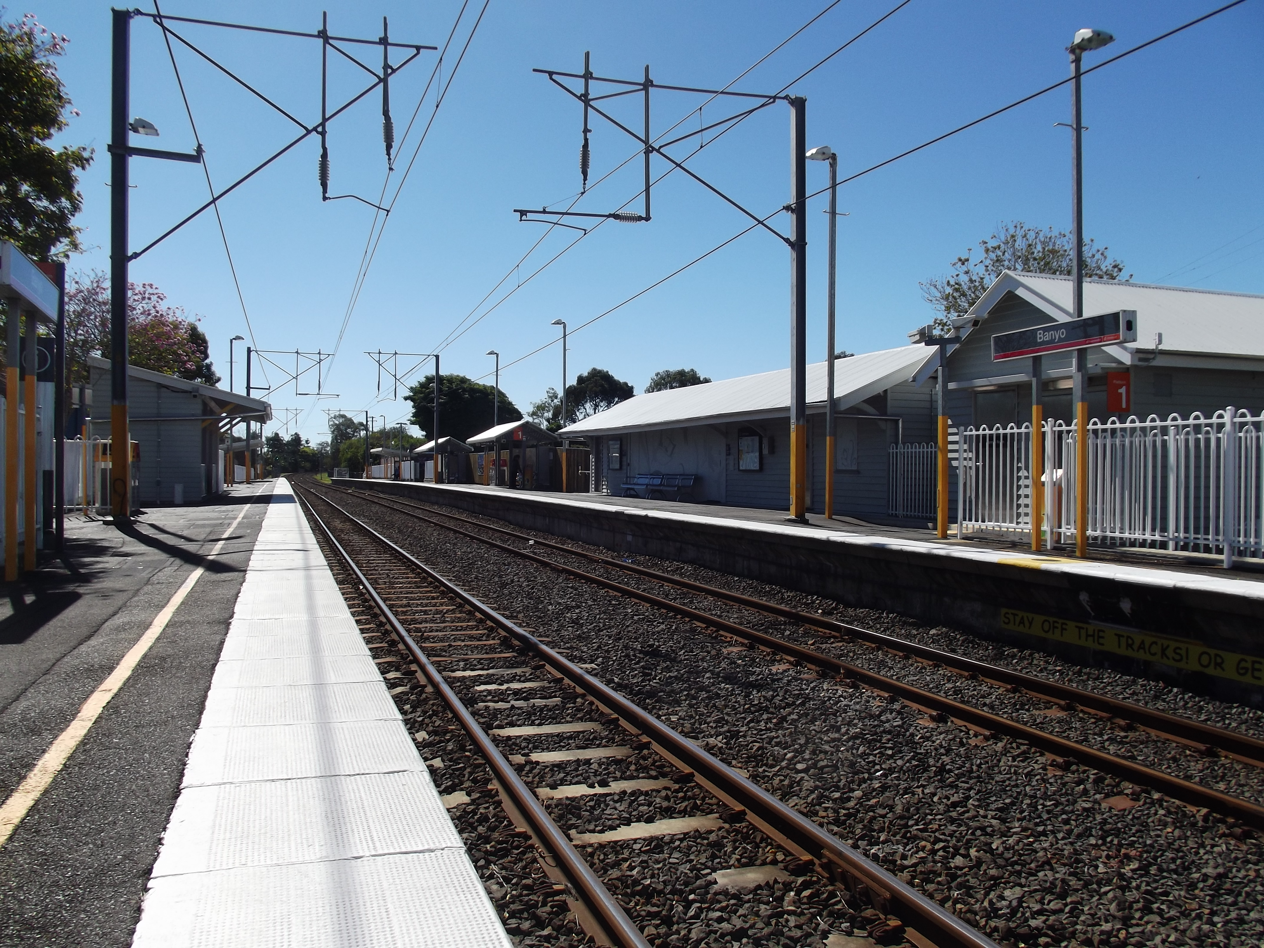 A photo of the Banyo railway station, operated by TransLink, located in Brisbane, Queensland.